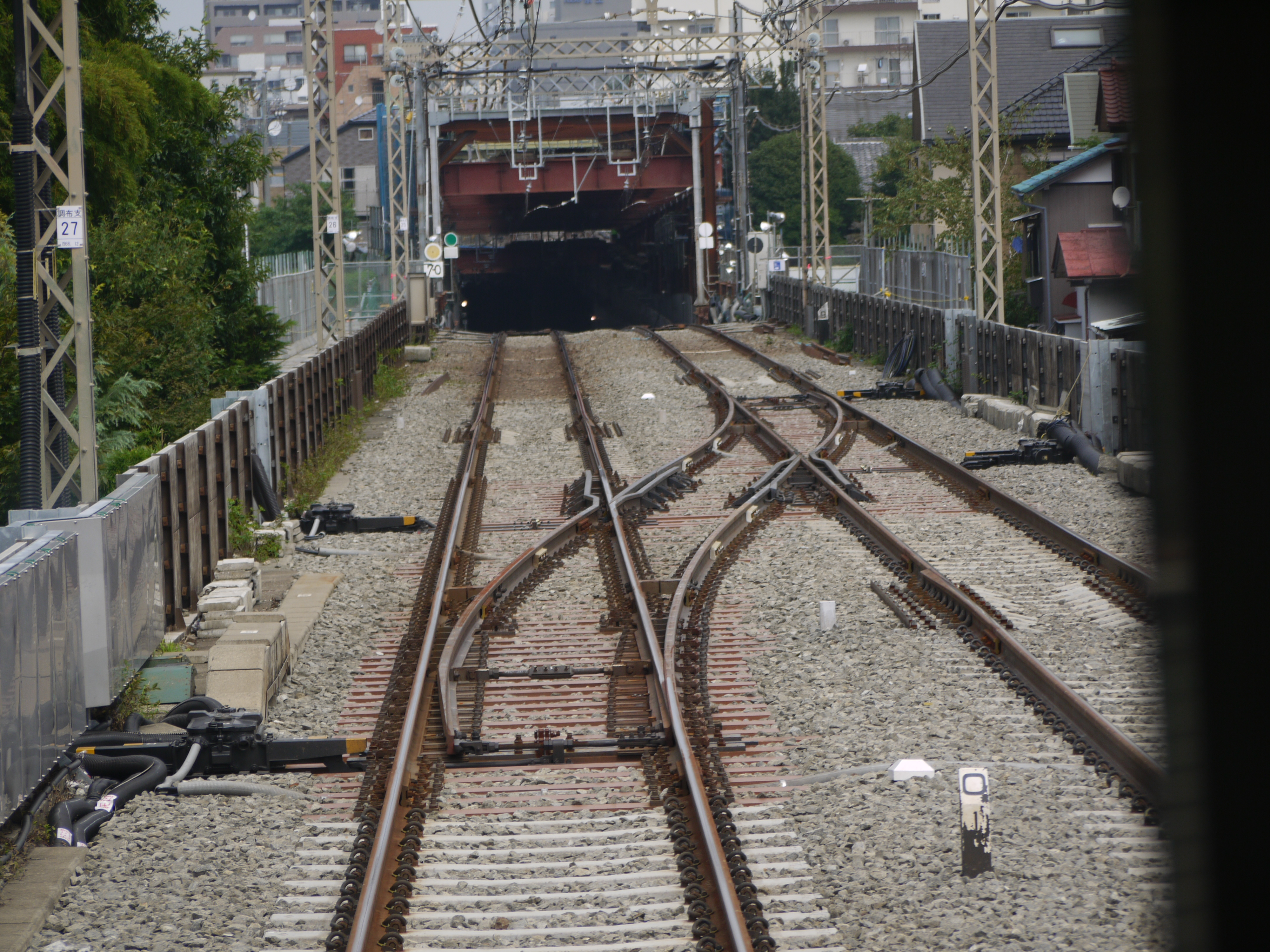 A crossover between Keio Tamagawa and Chofu